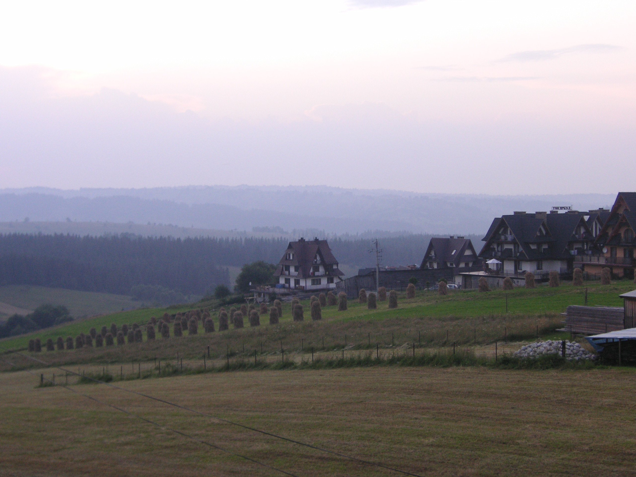 Sunset over Murzasichle